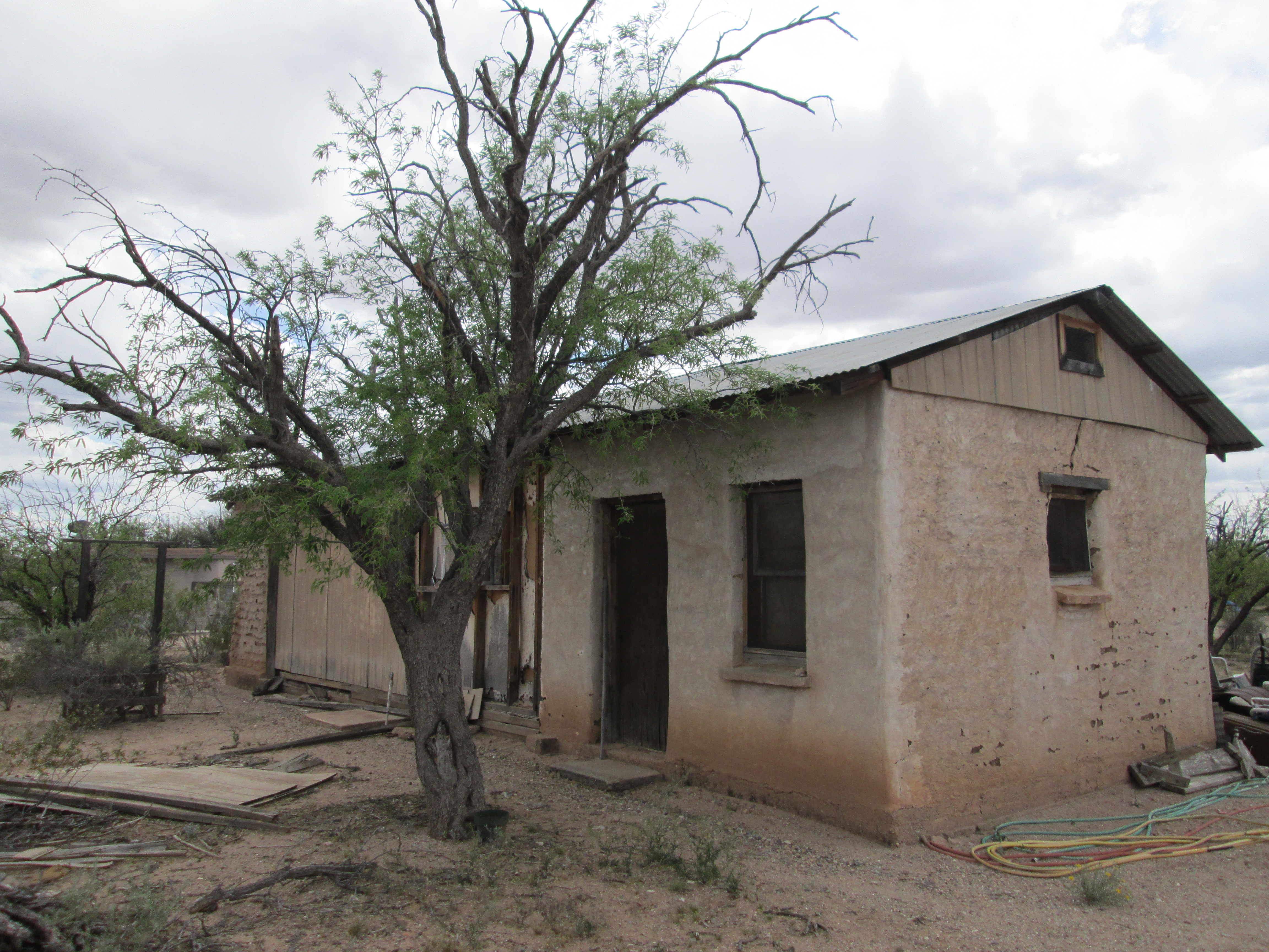 An old adobe ranch house that was built in the 1940s or 1950s in Summit, Arizona. According to the owner, Dolores, her father hired a man from Nogales, Sonora, Mexico, to make the adobe bricks the traditional Mexican way.